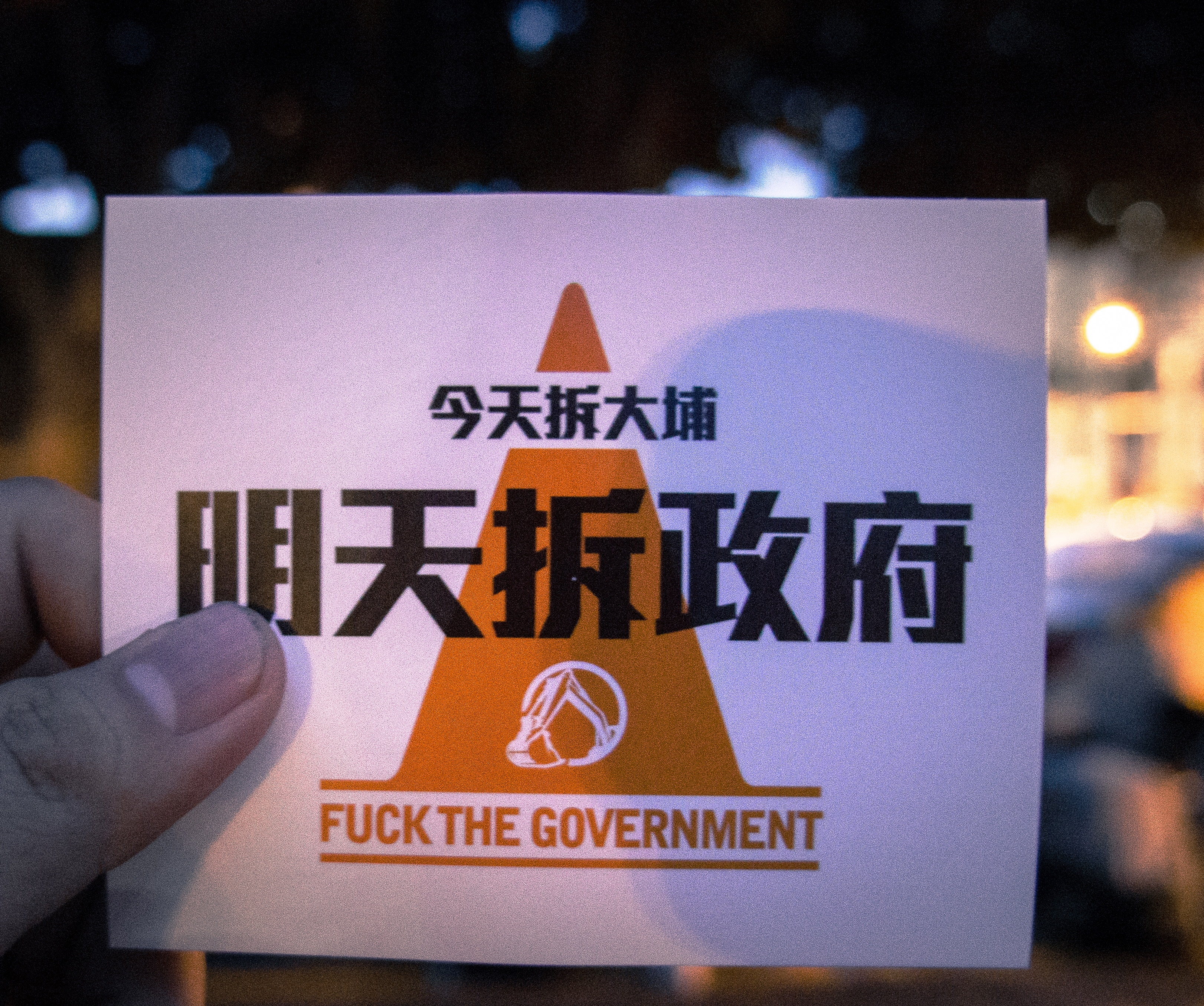 "The government pull down People's House today; People will pull down the government tomorrow."